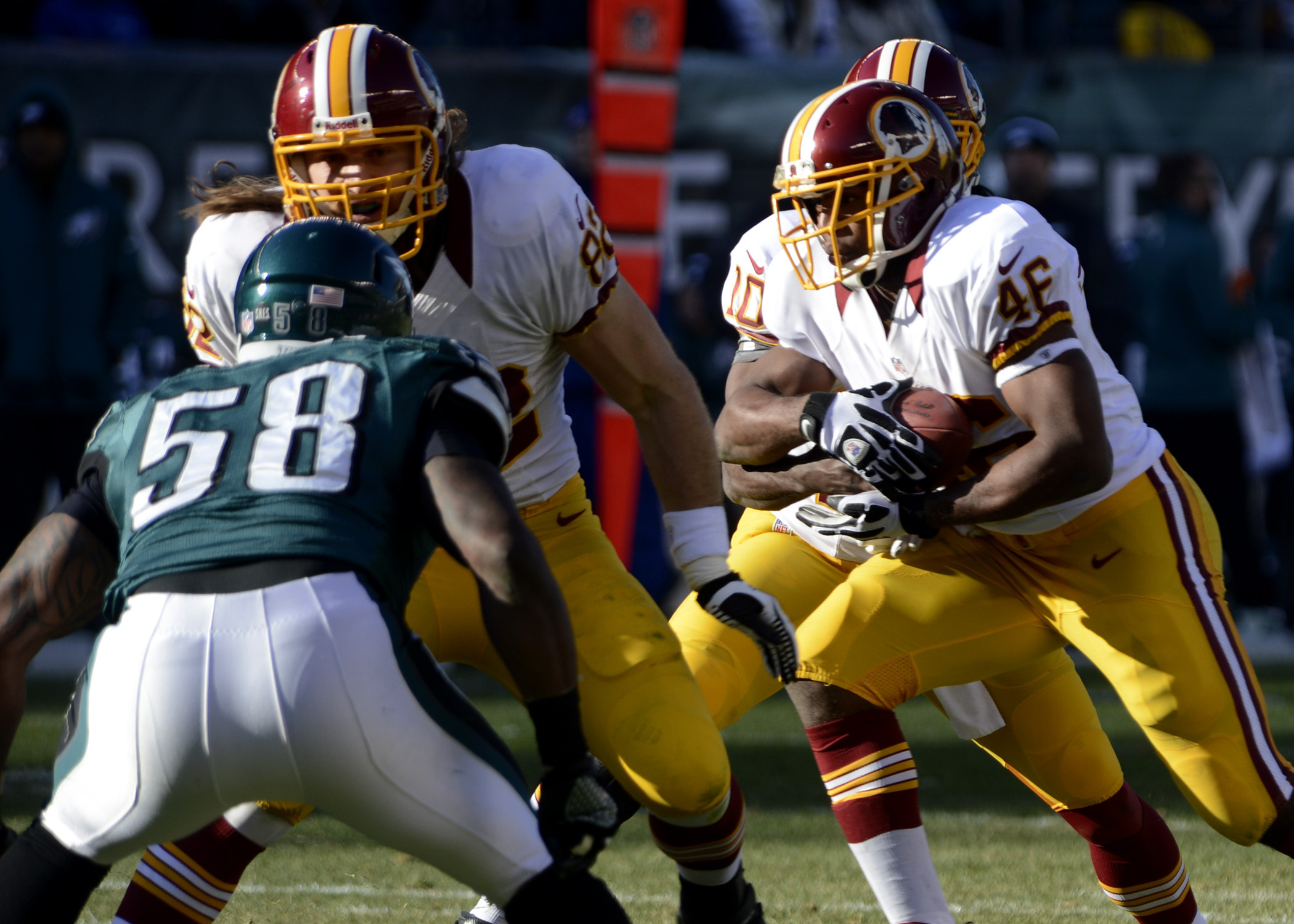 Washington Redskins running back Alfred Morris takes a handoff from quarterback Robert Griffin, III during an NFL game against the Philadelphia Eagles at Lincoln Financial Field in Philadelphia, on Dec. 23, 2012. Morris rushed for 92 yards and a touchdown as the Redskins defeated the Eagles 27 to 20. (U.S. Air Force photo by Tech. Sgt. Chuck Walker)